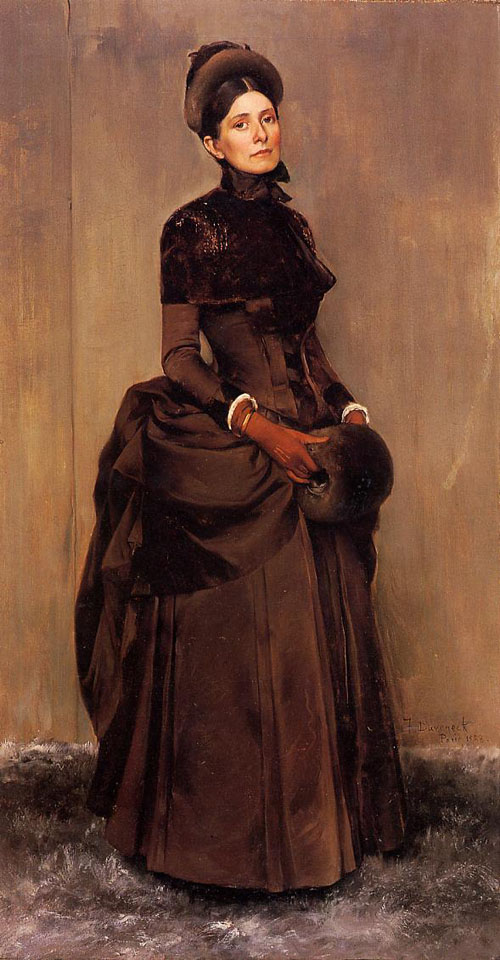 Elizabeth Boott wearing up-to-date bustled fashions